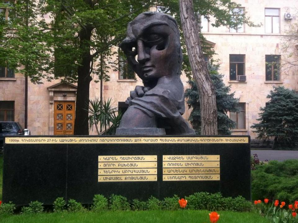 Sculpture Biblical David, devoted to the victims of 1999 October 27 terrorist attack in NA of RA